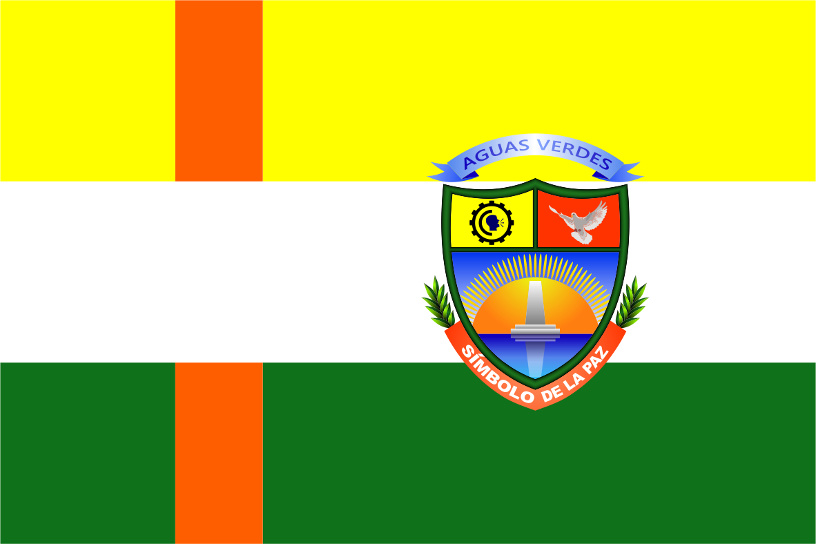 Green water district - Zarumilla Province - Tumbes Region